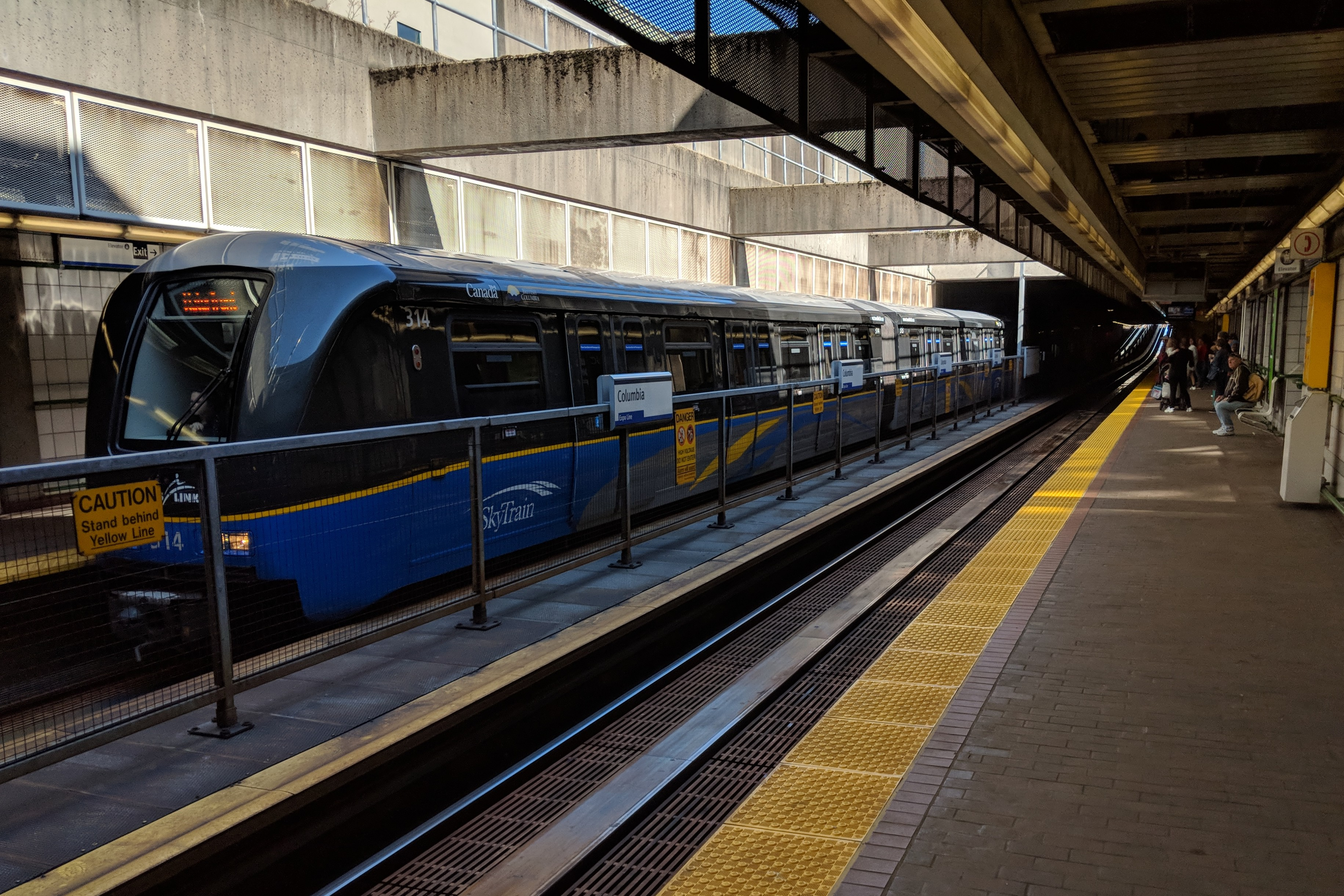 Platform level at Columbia station. A westbound train with service to Waterfront station is seen at Platform 1.